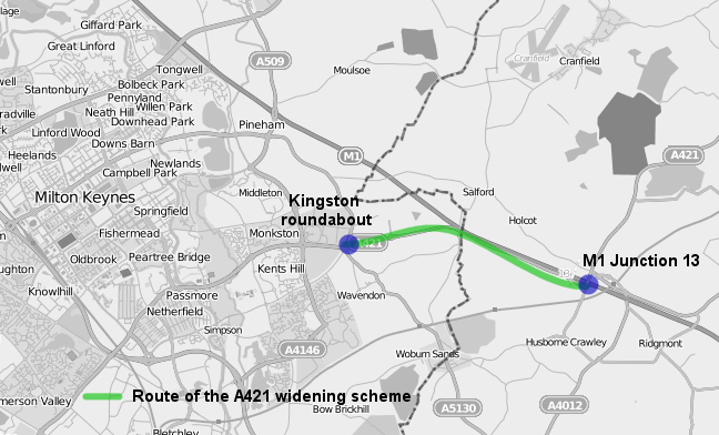 A map displaying the route, in green, of the A421 proposed widening scheme between the M1 Junction 13 and Milton Keynes. Shown, in blue, are the start and end locations of the scheme. Overlaid on OpenStreetMap data.